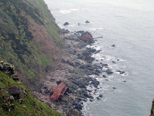 The wreck of the MS Johanna, Hartland Point, Devon